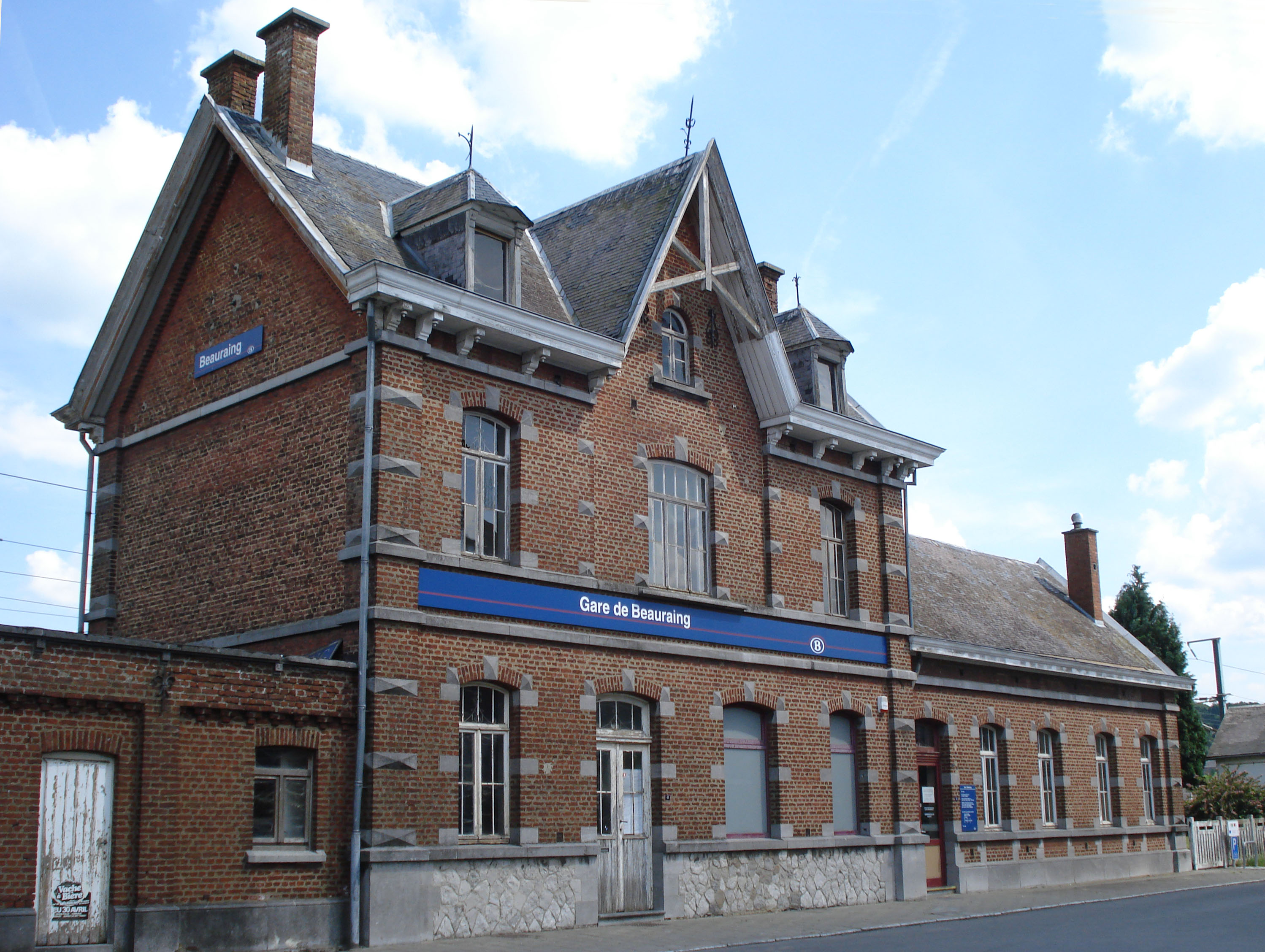 Railwaystation Beauraing (B)